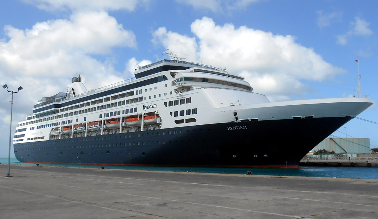 Our Holland America cruise ship Ryndam in Oranjestad, Aruba. Ryndam is old and small by cruise ship standards. It was completed in 1994 and carries 1,250 passengers. It spends the winter on "niche" cruises from Tampa, Florida. Our cabin was on the lowest passenger deck of the ship, A Deck (deck 4), on this side (right, or starboard) near the front.